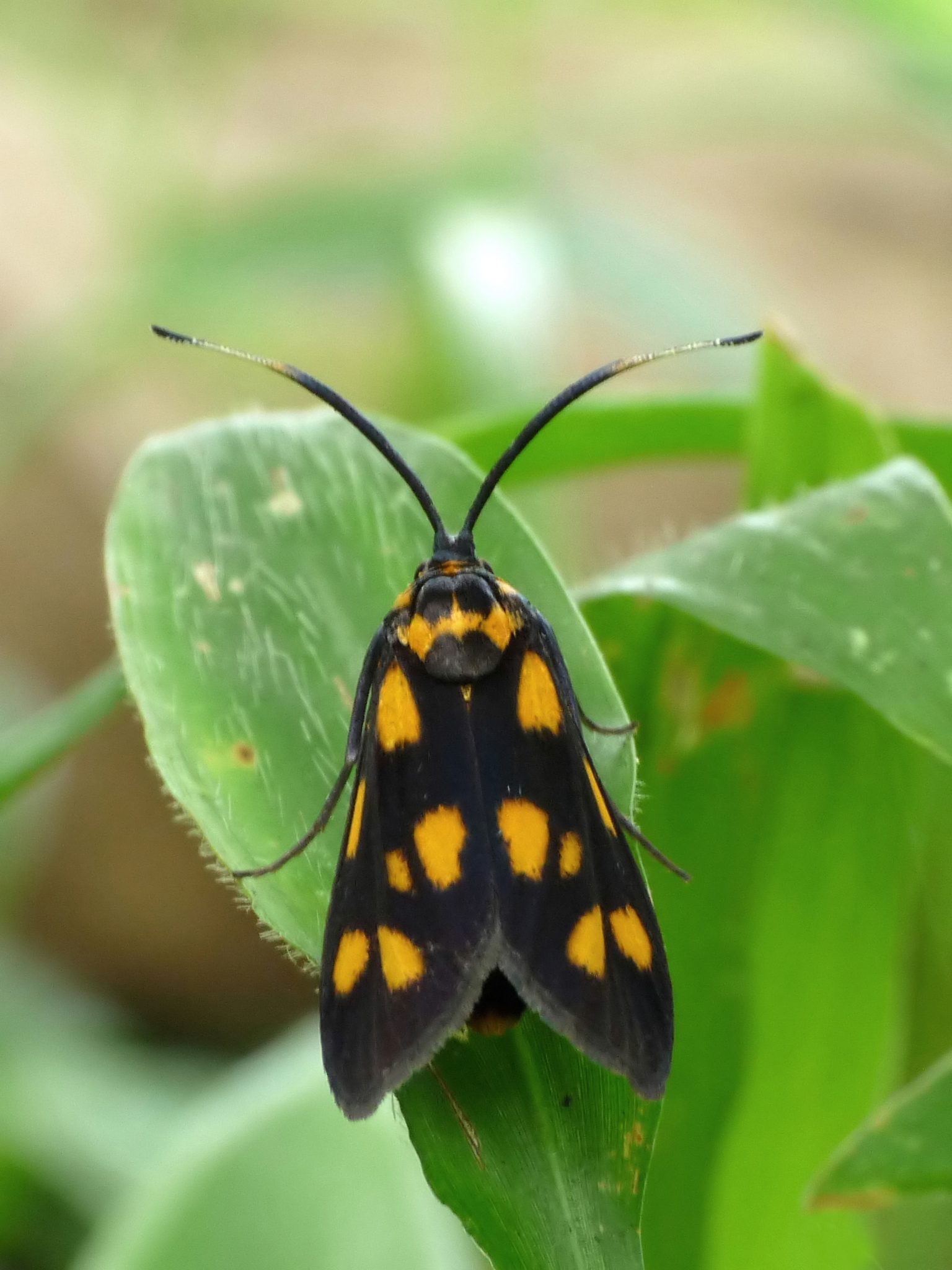 Balataea is a genus of moths of the Zygaenidae family. sometimes they are treated under Artona too. This is Balataea hainana (Syn. Artona hainana).